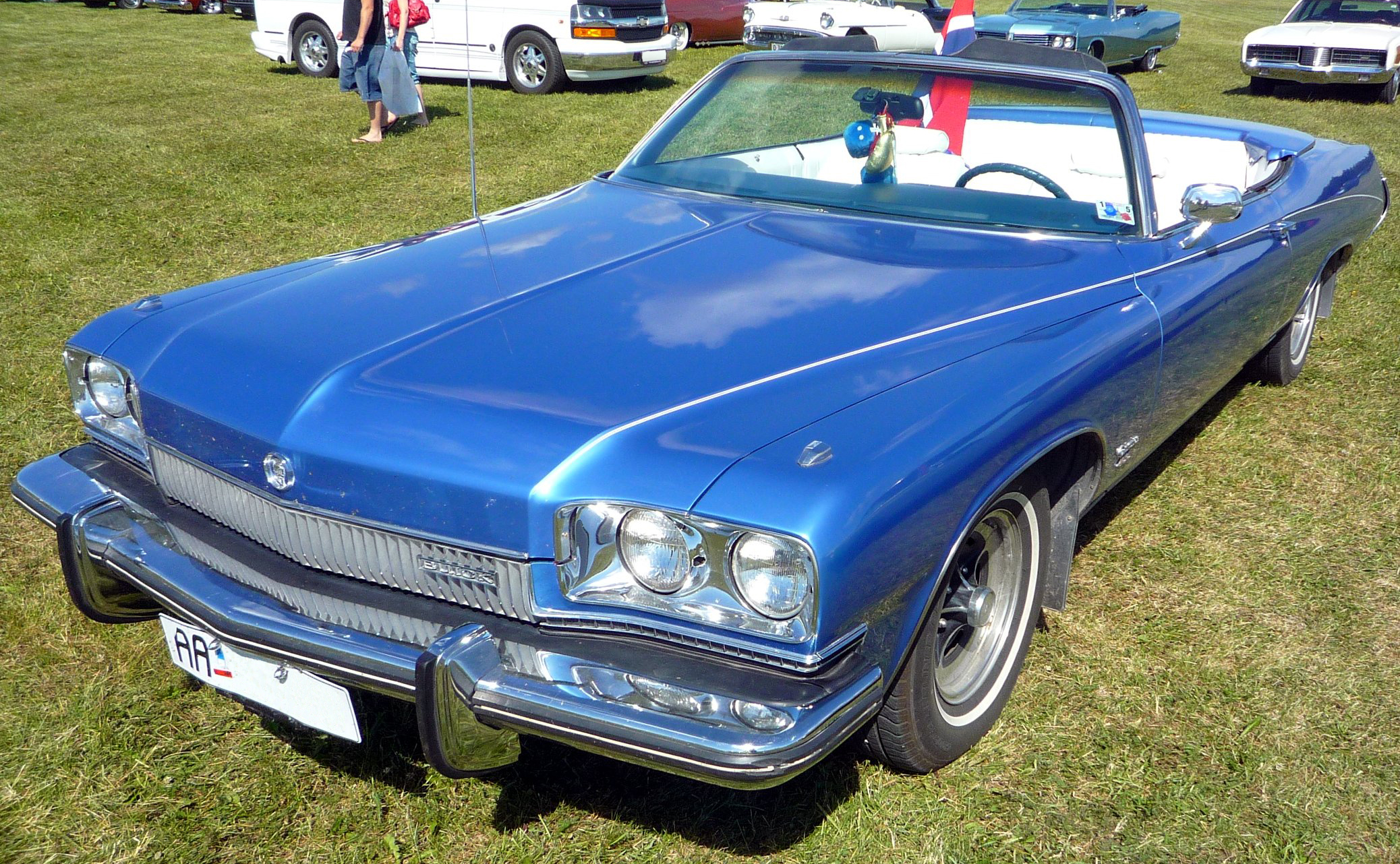 1973 Buick Centurion Convertible